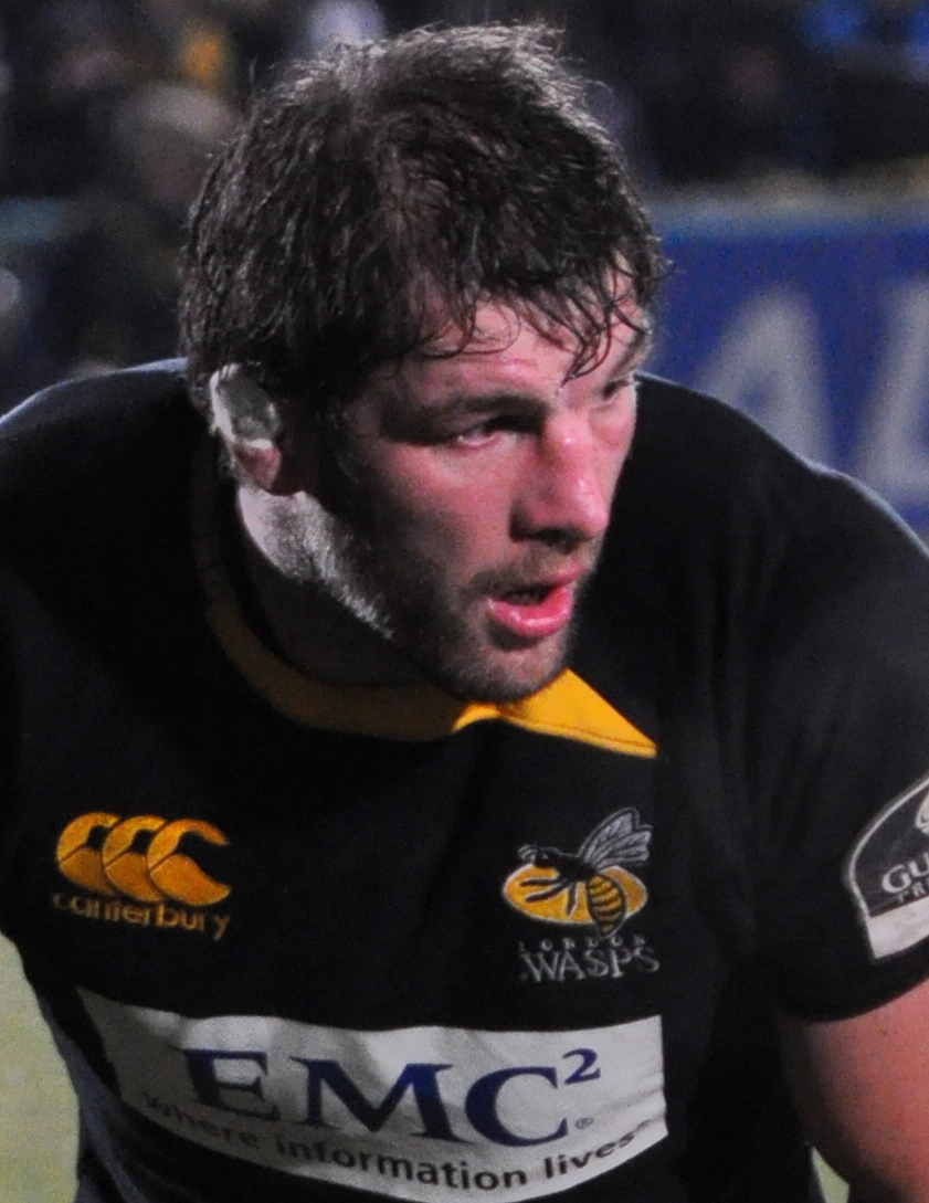 Simon shaw in action against Newcastle on 3rd January 2010